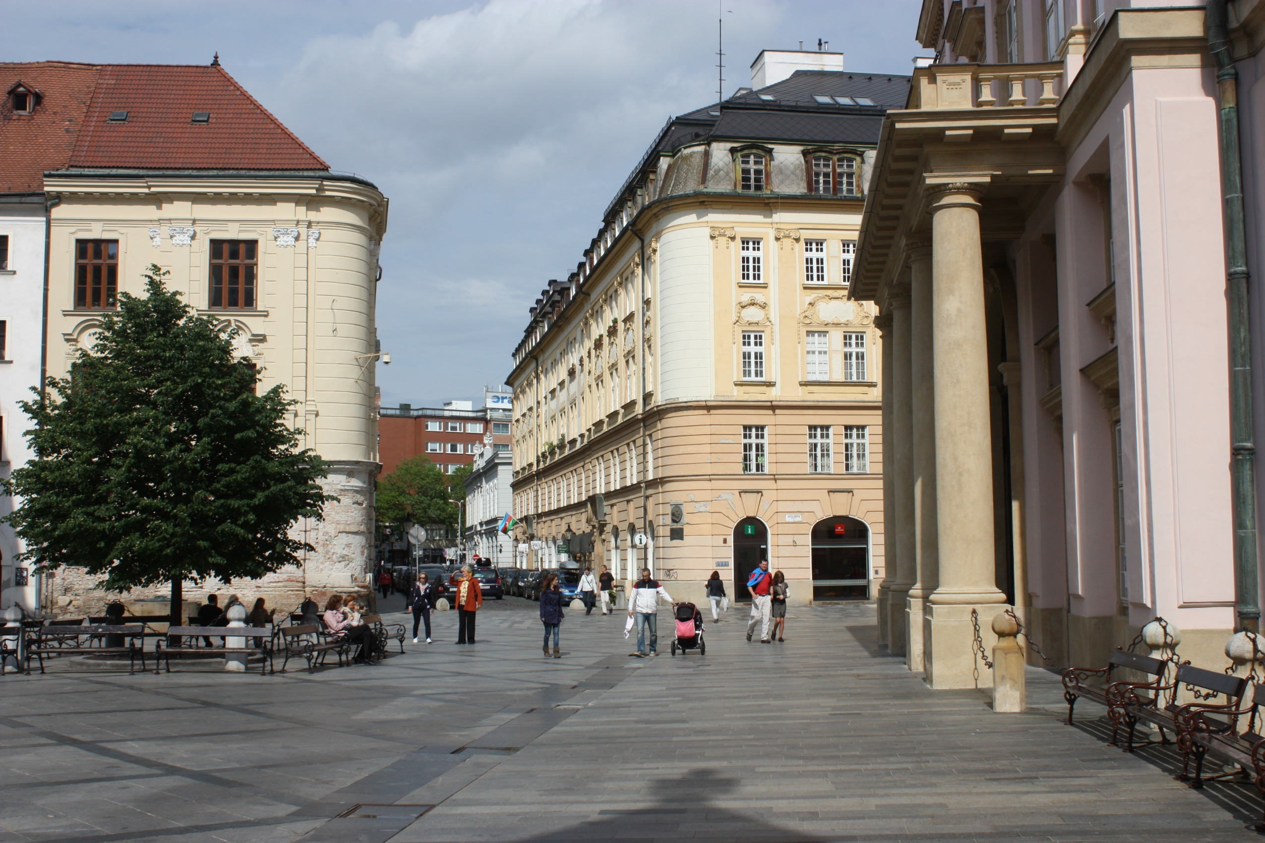 Bratislava, view from the square "Primaciálne námestie" to the street "Klobučnícka"